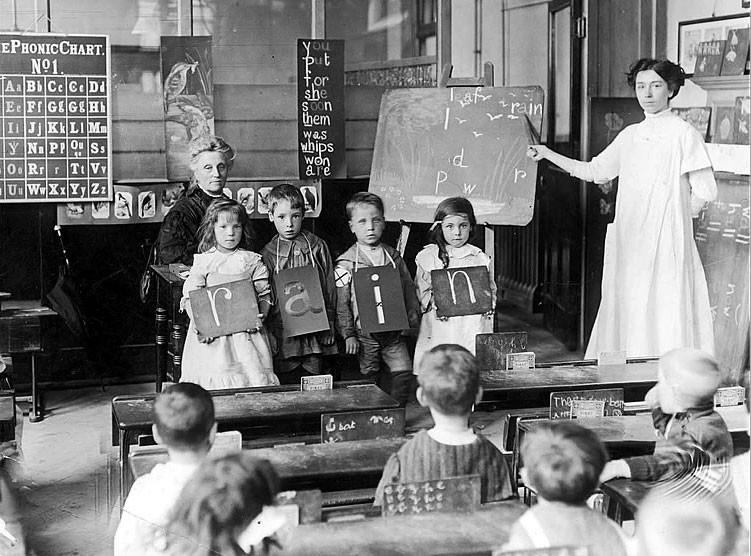 Children and their teacher at school in Chelsea, England, during a spelling lesson.